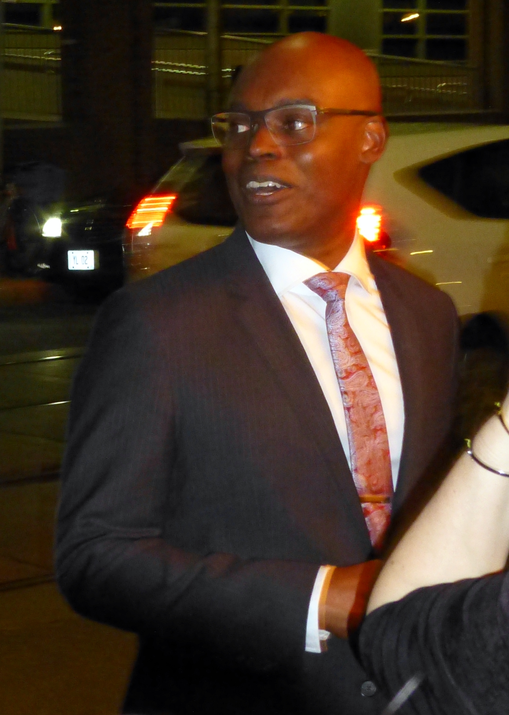 Cameron Bailey at the premiere of Prisoners, Toronto Film Festival 2013.